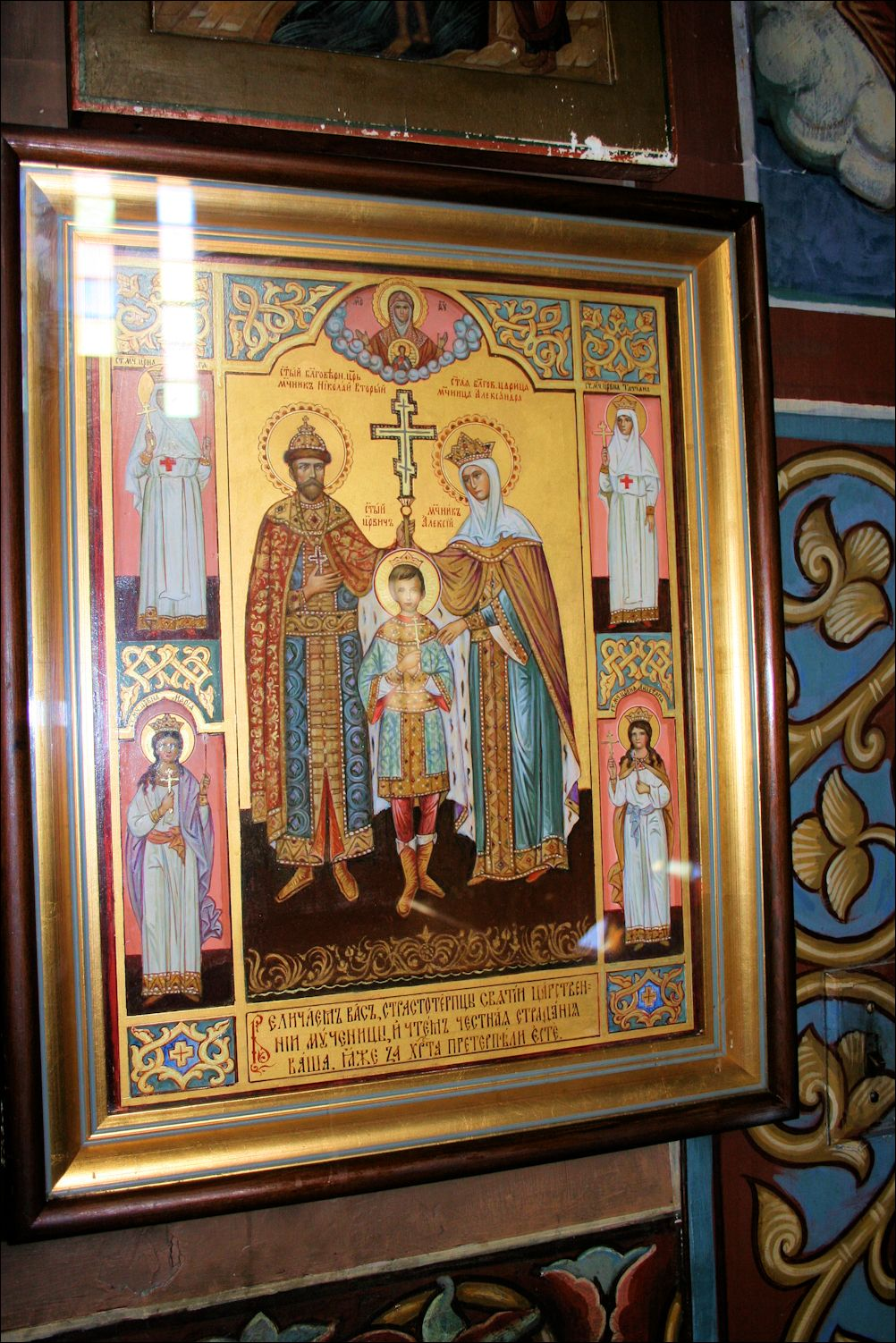 Holy Trinity Russian Orthodox Monastery Jordanville New York